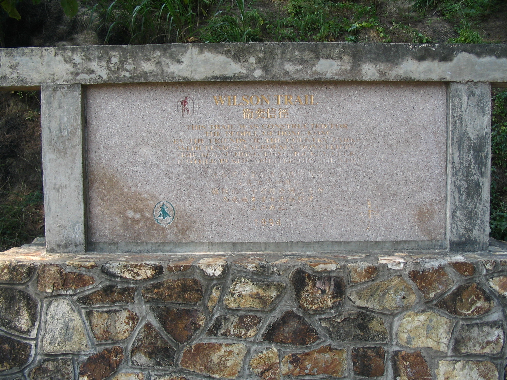 Photo of Wilson Trail Stage 1 at Stanley Gap Road